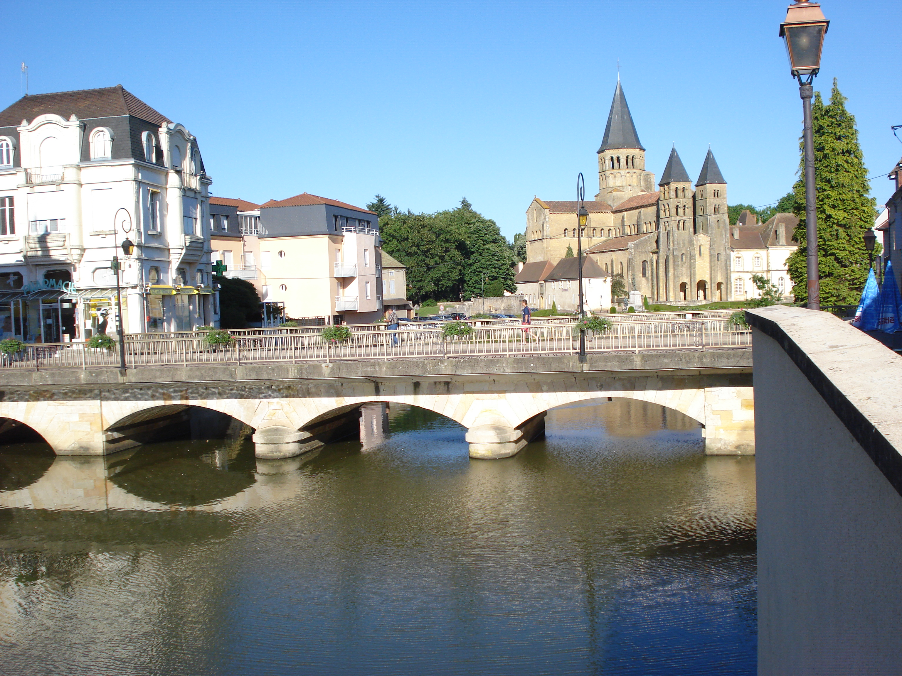 Paray-le-Monial, pont sur la Bourbince et basilique, dans la rue des Deux-Ponts. Vue vers l'amont.